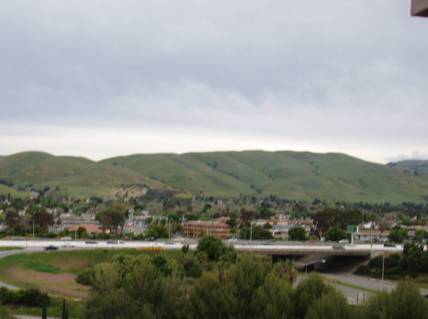 Mountains above Milpitas